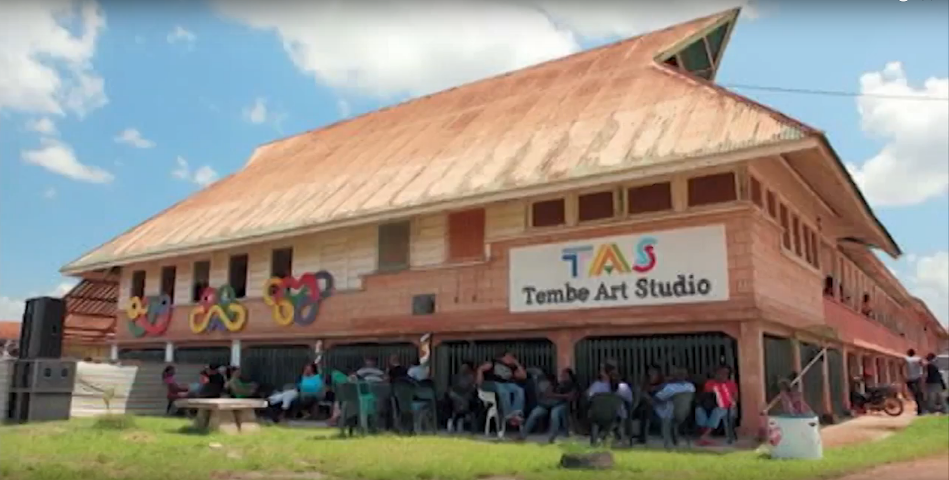 Tembe Art Studio